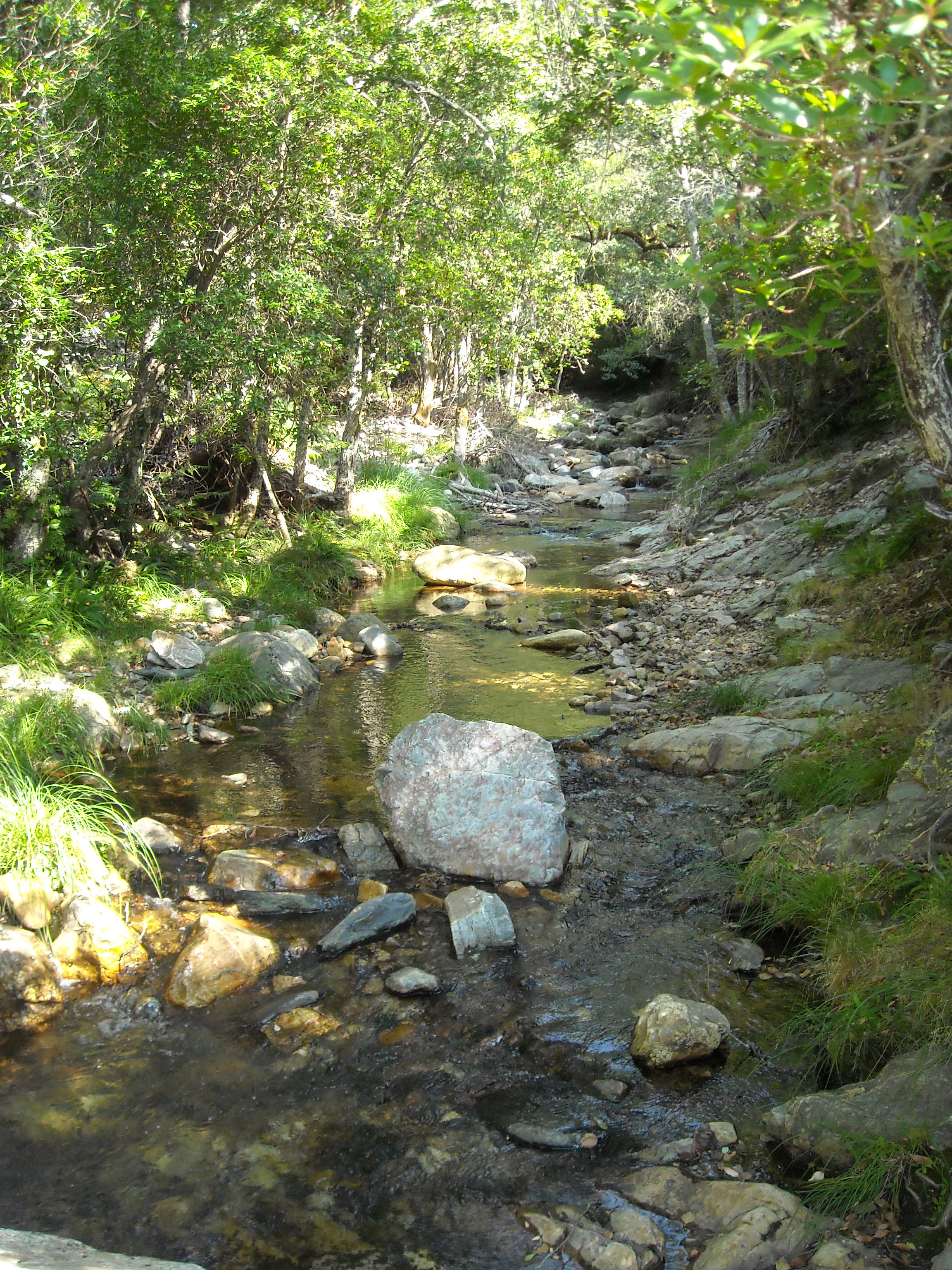 River Batuecas, La Alberca, Salamanca, Spain